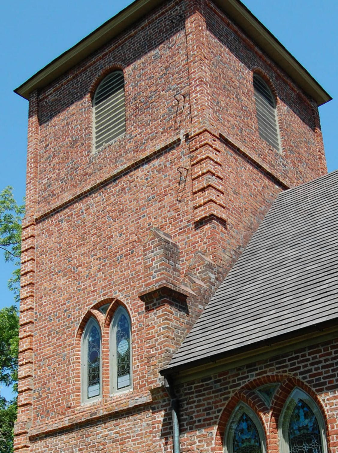 Newport Parish Church Tower